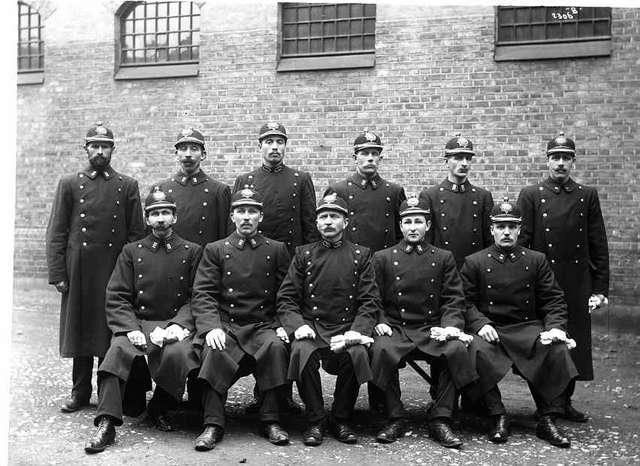 Police constables in Norway